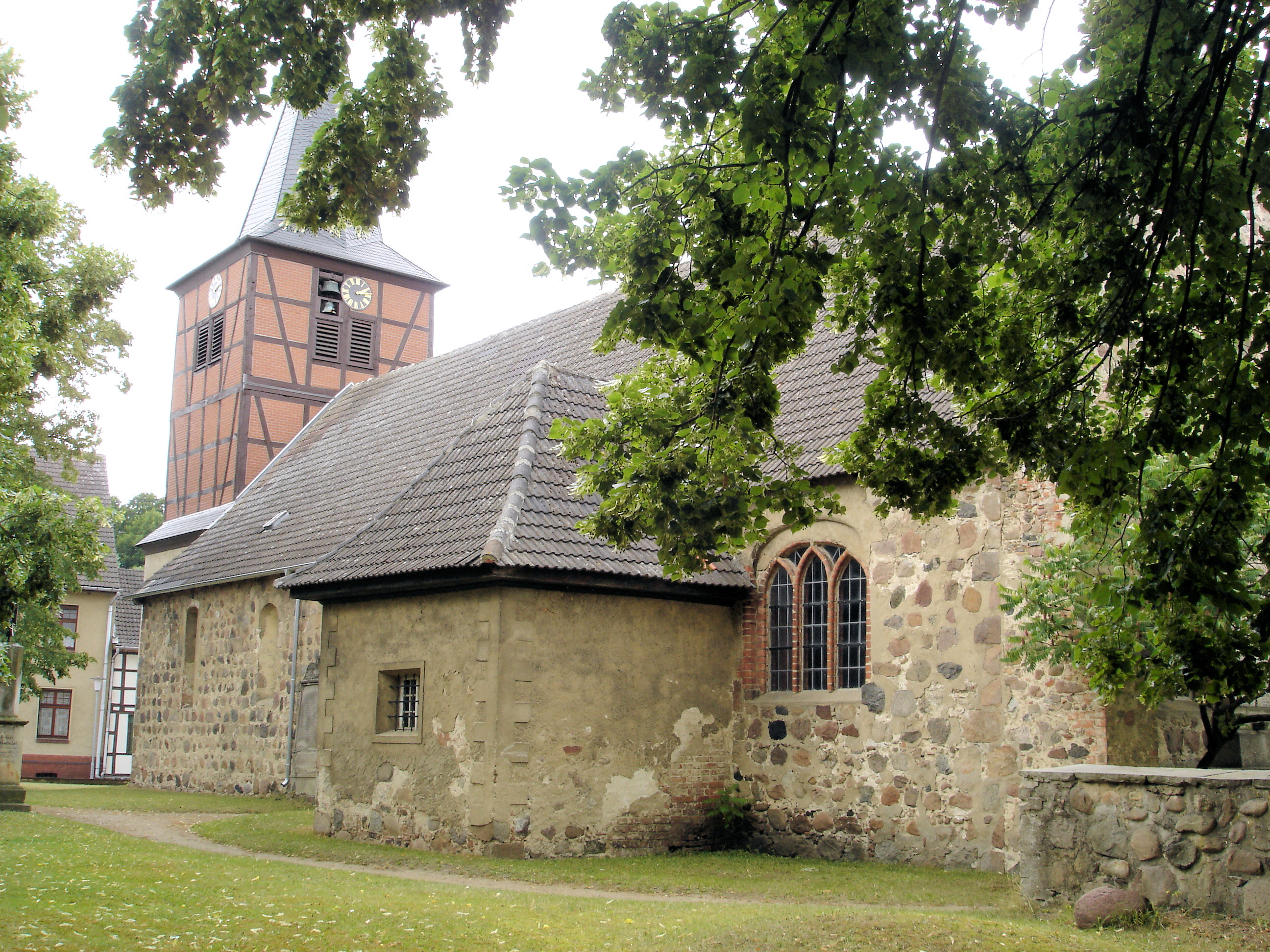 Church in Apenburg, Saxony-Anhalt, Germany